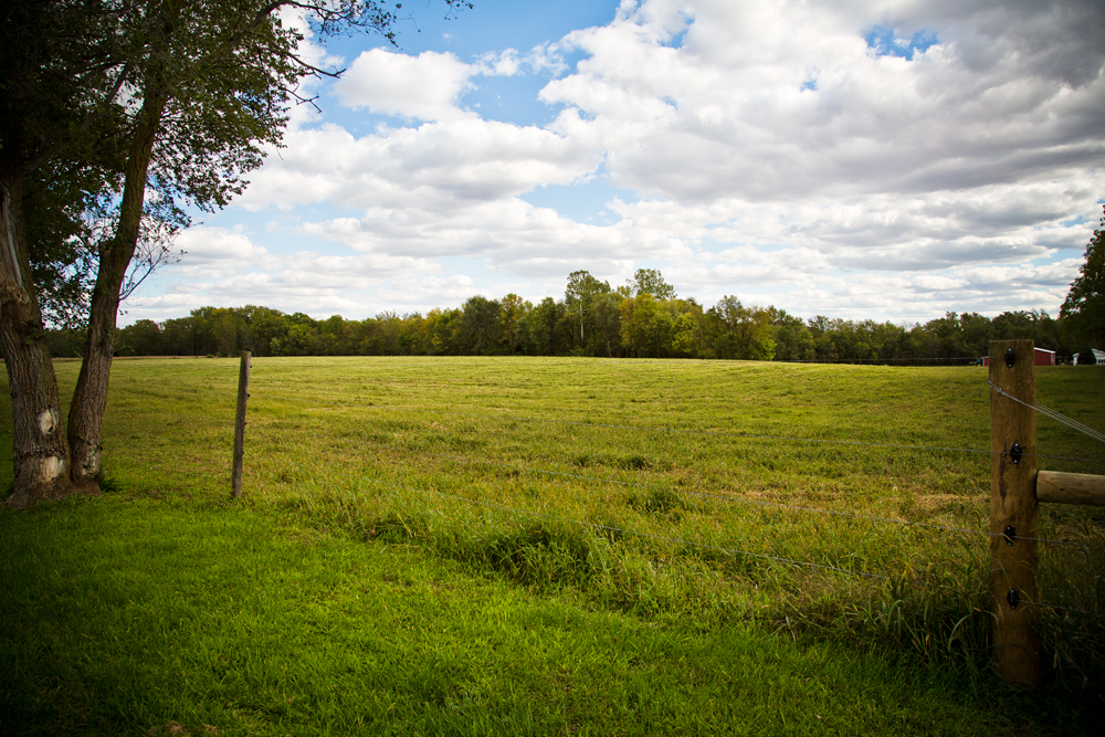 Current view of Elizabethtown, currently a farm field.